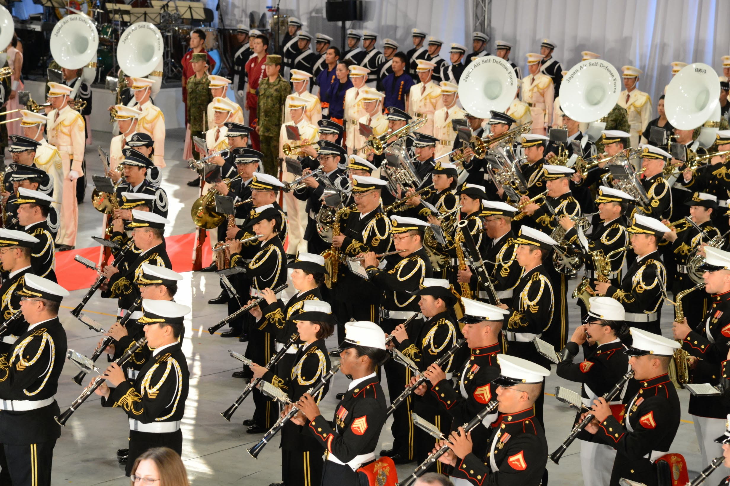 Title SEK_1087.JPG Album 平成25年度自衛隊音楽まつり Photographs by the Japan Ground Self-Defense Force